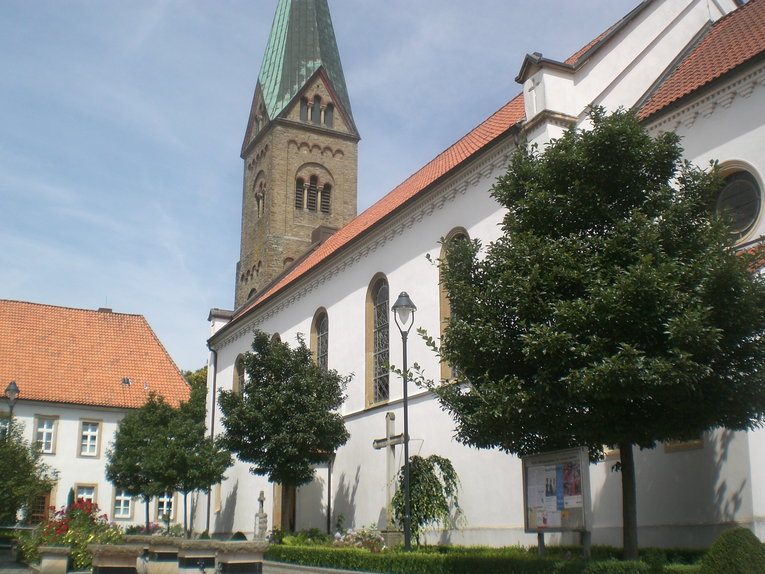 The catholic church in Vörden, Neuenkirchen-Vörden, Lower Saxony, Germany